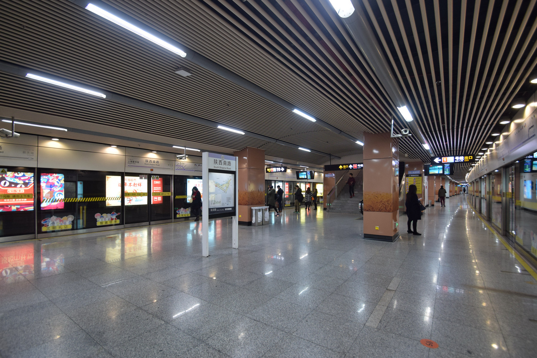 Line 10 Platform of South Shaanxi Road Station, Shanghai Metro